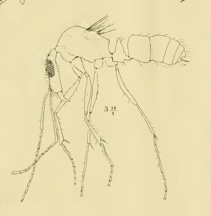 Illustrated profile view of the Ponera leptocephala holotype queen.